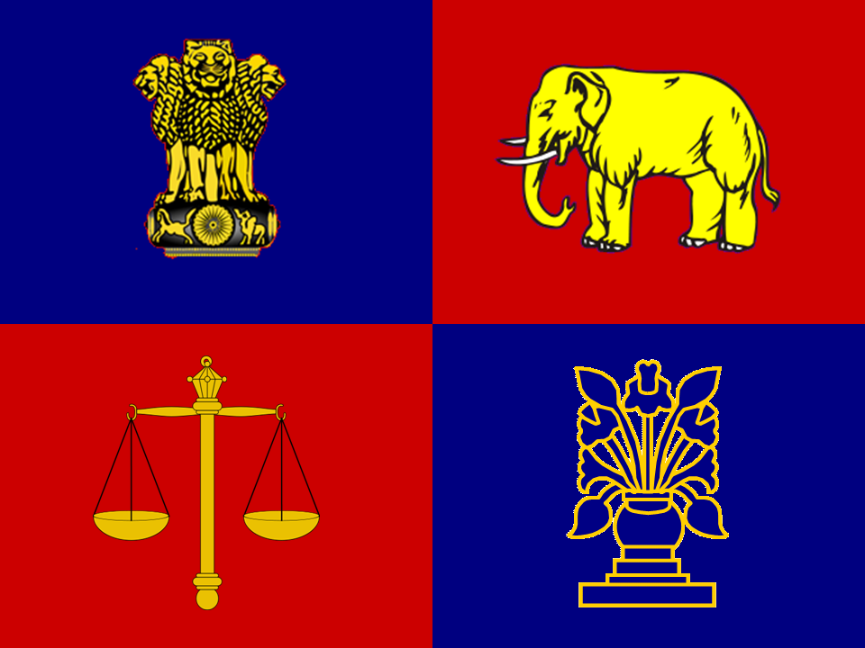 Presidential Standard of India